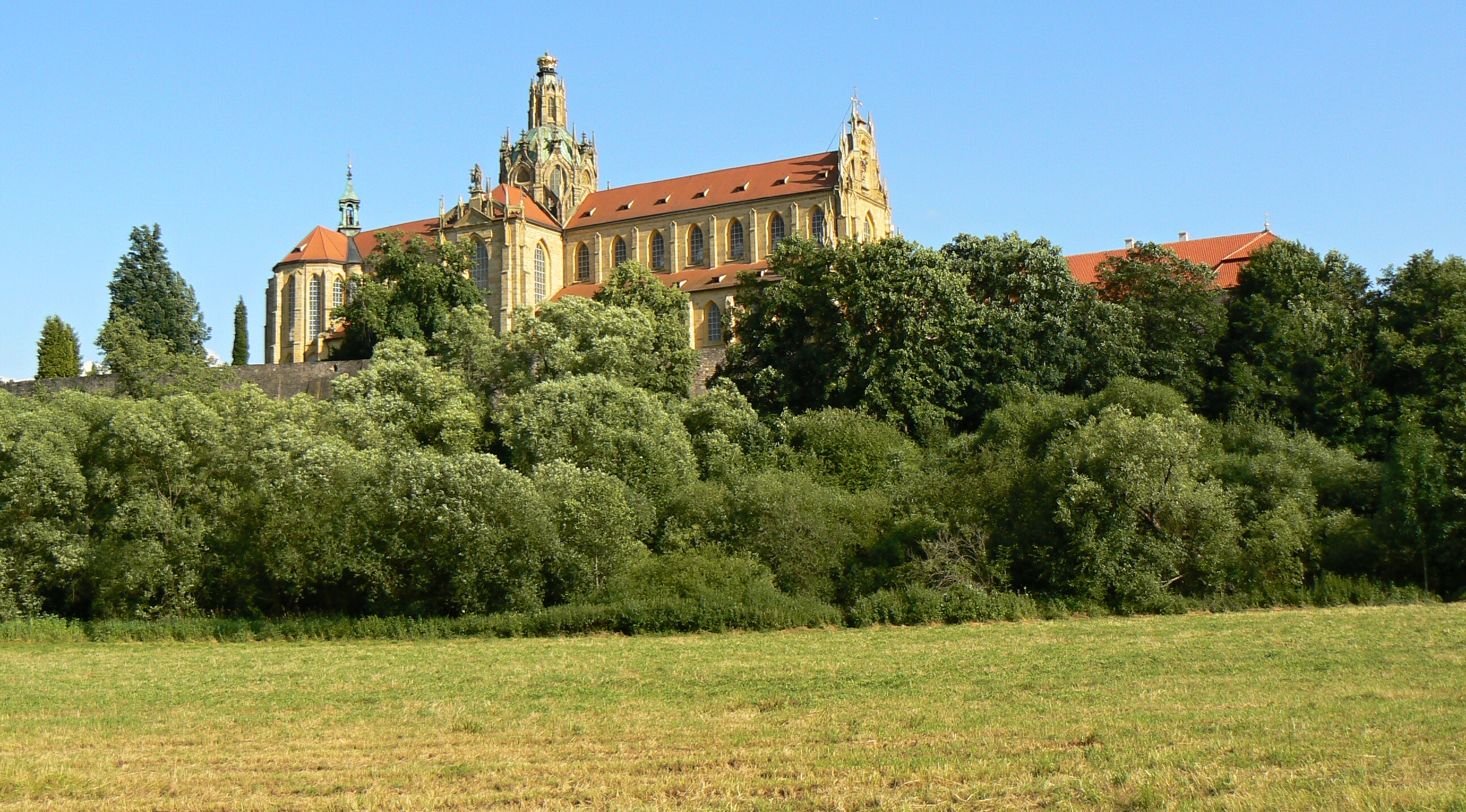 Monastery in town Kladruby in Tachov District in Czech Republic